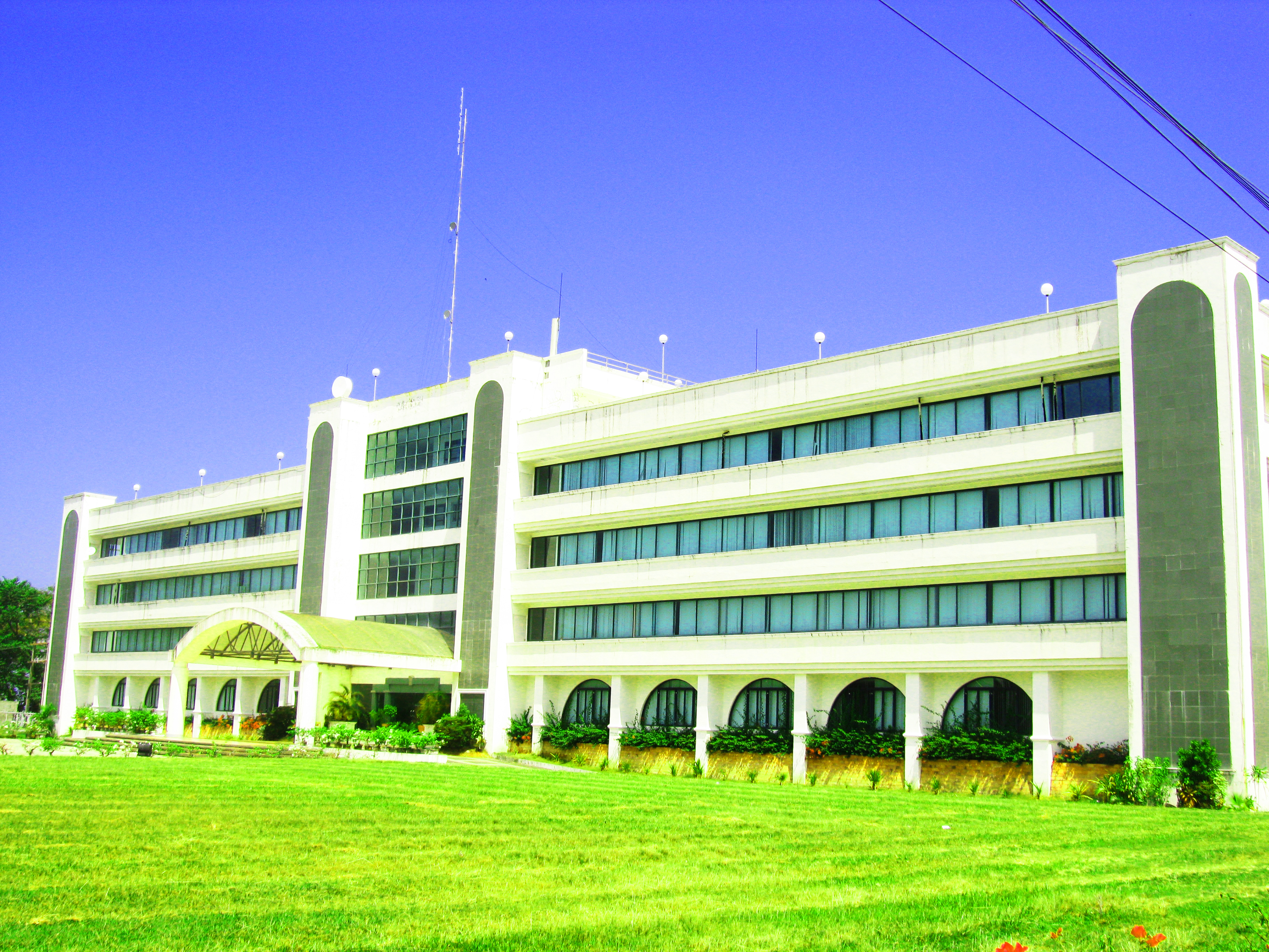 Zamboanga City Special Economic Zone Authority -Admin Office